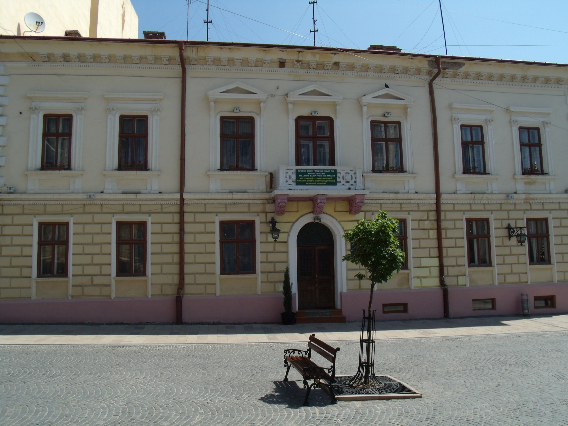 Chernivtsi, Kobylianska house 57